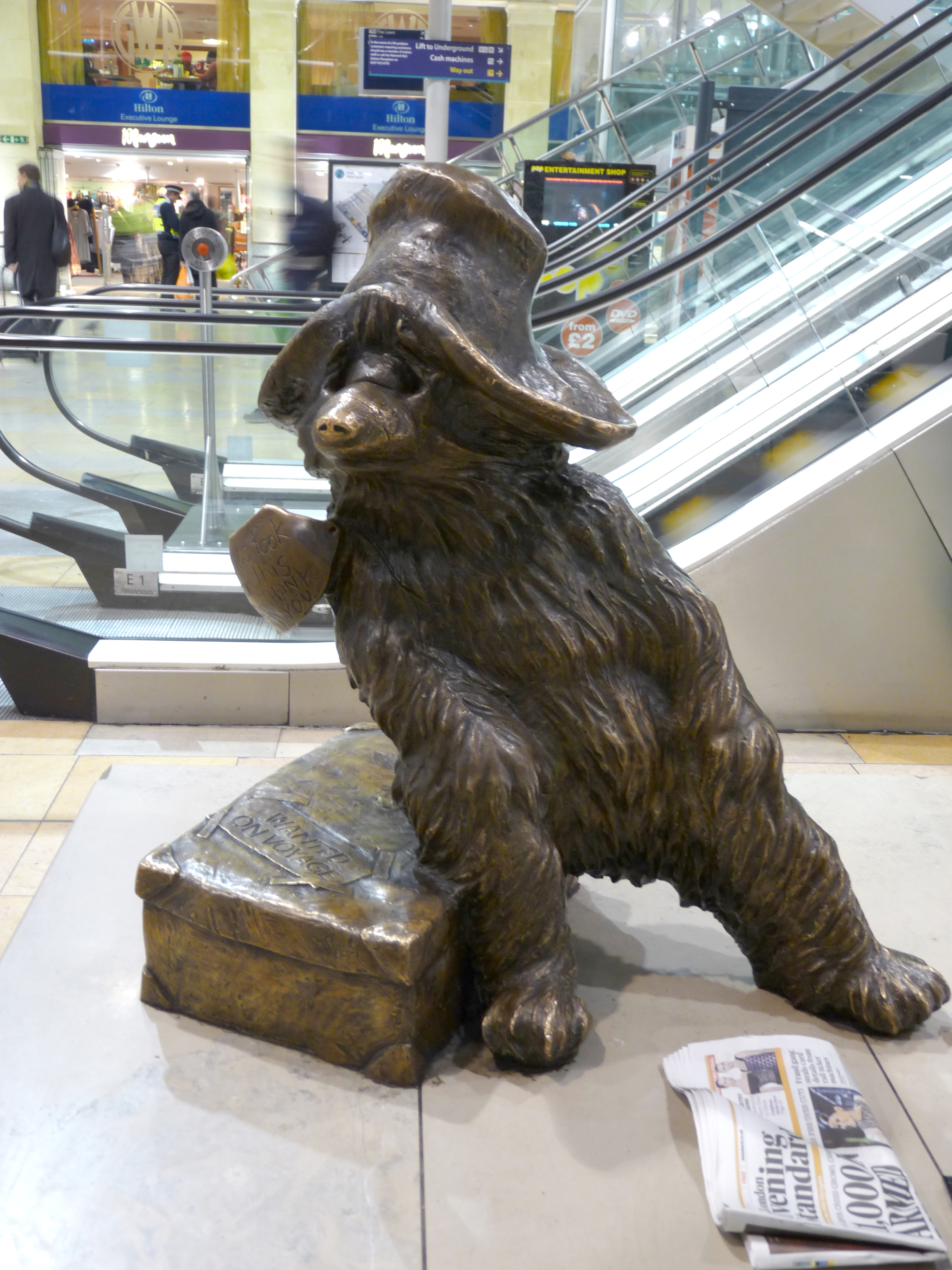 Paddington Bear statue, Paddington station in March 2011. Also seen is a discarded copy of that day's Evening Standard newspaper, with the headline "11,000 in armed forces get axe"